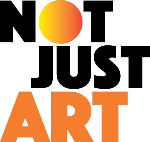 Nurturing artistry of all abilities. Promoting the work of artists with disability on a digital platform to create a global community of artists, advocates, and patrons.